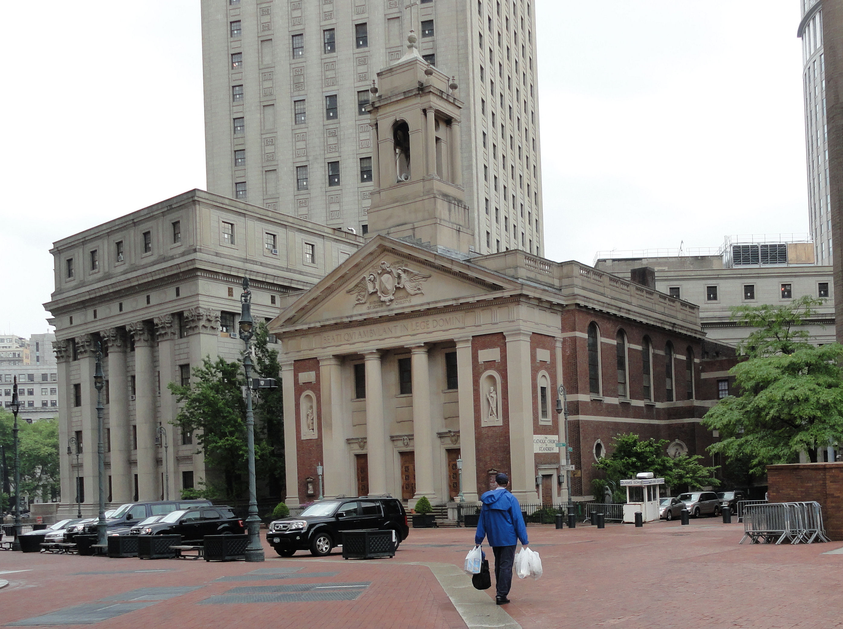 St. Andrew Church, New York, designed by Maginnis and Walsh with Robert J. Reiley. This is Maginis and Walsh's only church in New York City. At left, Thurgood Marshall United States Courthouse.